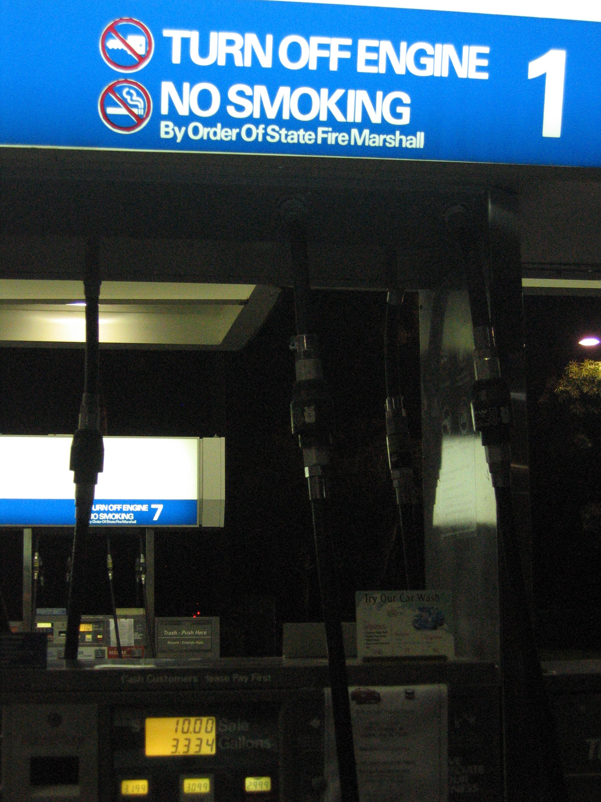 A picture I took to fulfill an image request for the Fire Marshall page. Image taken at a local Chevron station.